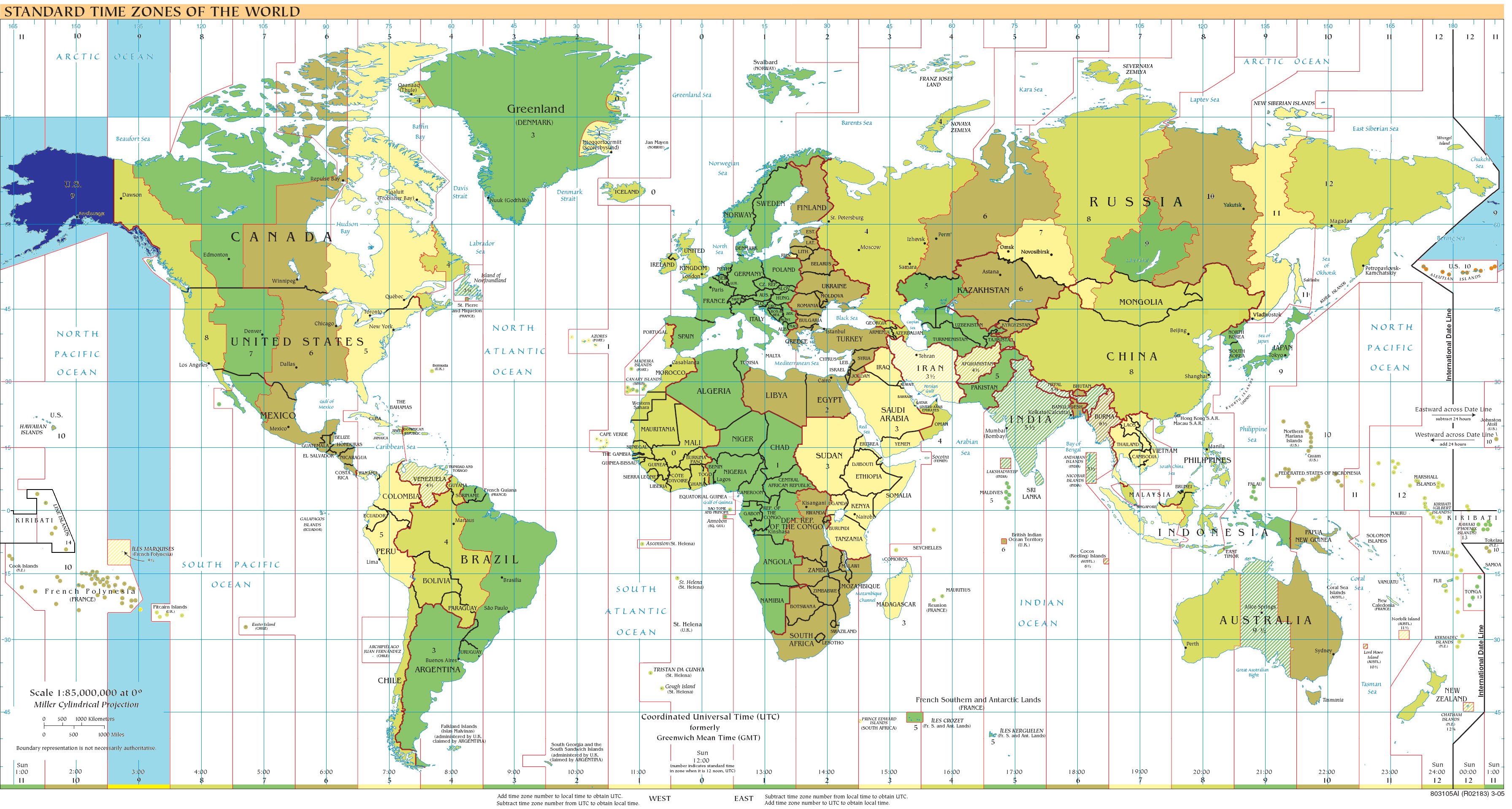 Copy of Timezones2008.png edited to highlight UTC-9 Light Blue: UTC-9 Sea Area Dark Blue: UTC-9 Northern Winter / Southern Summer (e.g. December) Orange: UTC-9 Northern Summer / Southern Winter (e.g. June) Yellow: UTC-9 all year round